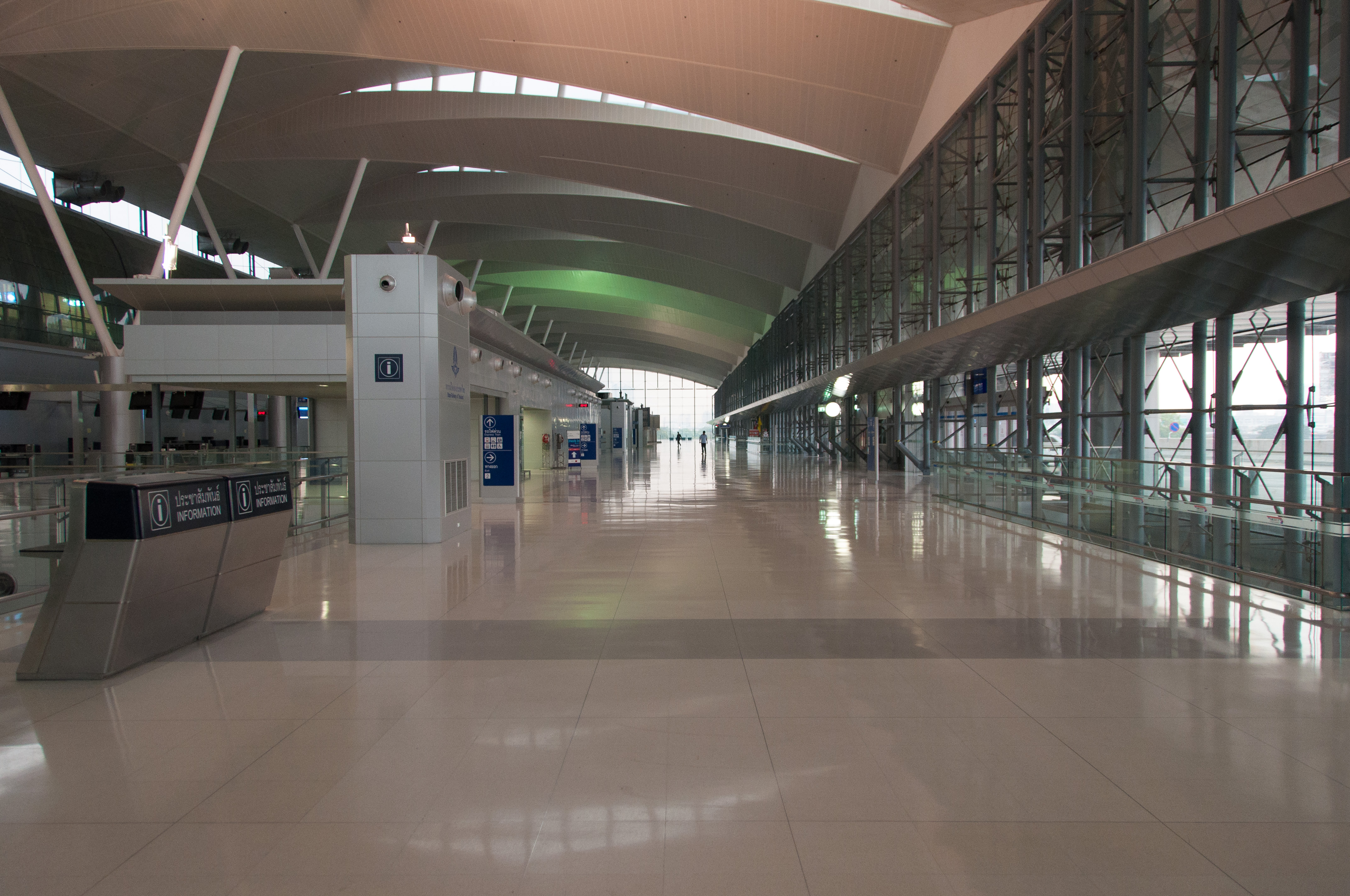 An empty concourse in the Makkasan train station in Bangkok, Thailand. Makksan is the largest station on the Airport Rail Line line connecting Suvarnabhumi Airport with downtown Bangkok. It was envisioned as a city air terminal where passengers could check into outgoing flights and connect to the public transportation network in Bangkok. In reality, the terminal is rarely used due to its inconvenient location and lack of connections to other public transportation. The nearest subway stop is about 800 meters away and requires crossing busy city streets outdoors. Access to the terminal is via one crowded road and when leaving the terminal traffic must go in a direction that makes getting to the popular Sukhumvit and Silom areas time-consuming and inconvenient.